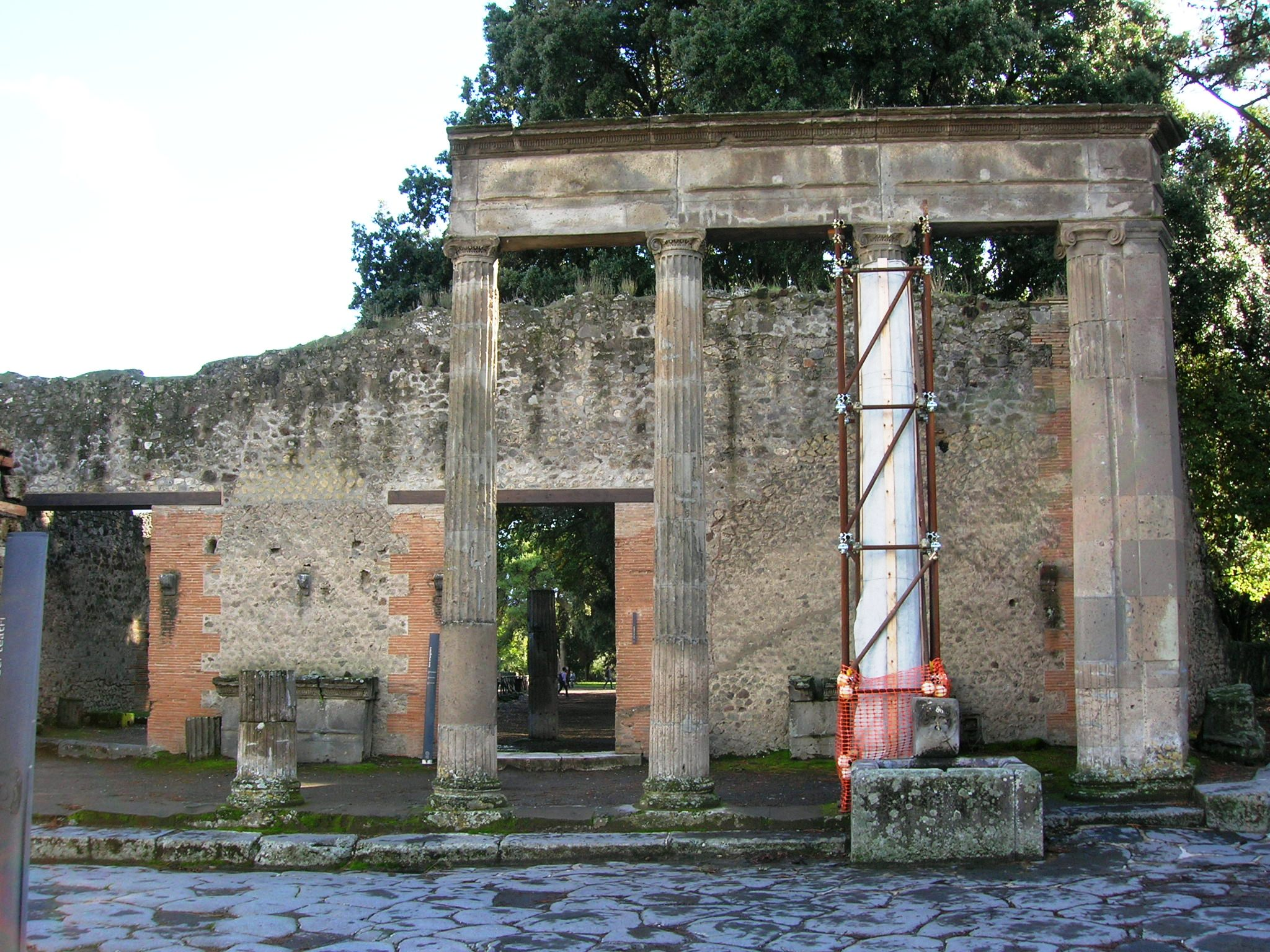 The so-called "Triangular forum" in Pompeii (Italy) in 2011.